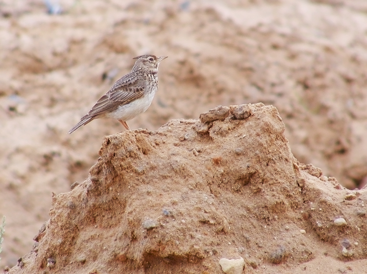 Crested lark (Galerida cristata) on the hill of sand, building. Baranavichy, Belarus.